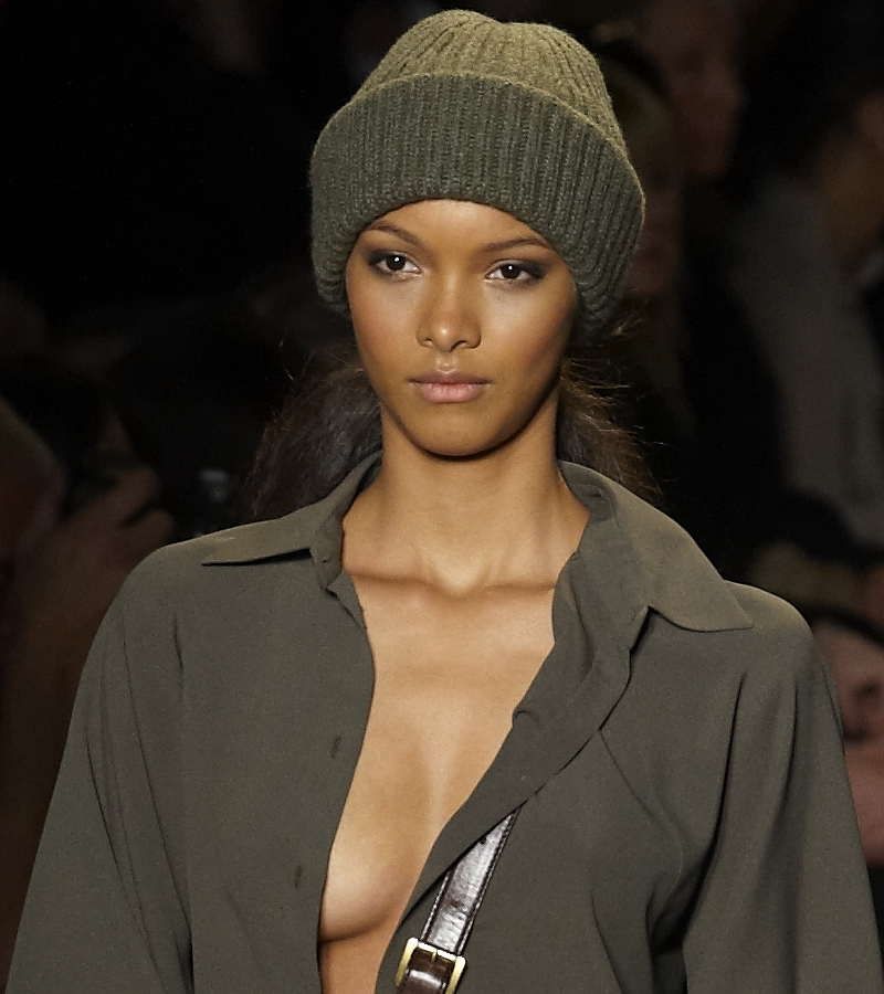 A model walks the runway at the Michael Kors Fall/Winter 2010 show at New York Fashion Week, February 2010.